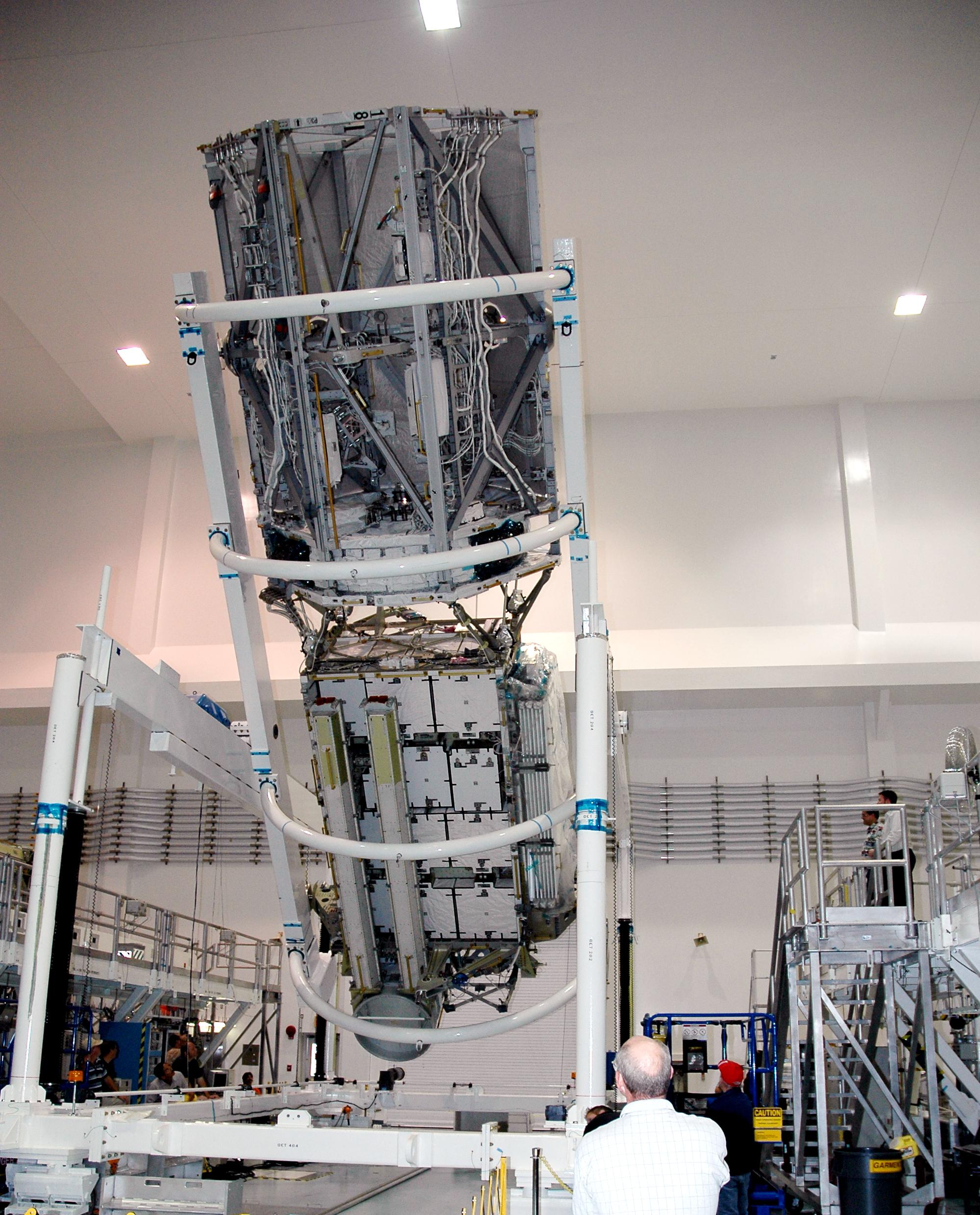 KENNEDY SPACE CENTER, FLA. – In the Space Station Processing Facility at NASA’s Kennedy Space Center, the P3/P4 Truss is rotated to the upper deck position in preparation for installation of the upper deck solar array wing. The truss is scheduled to launch on mission 12A, STS-115, to the International Space Station. The wing was removed to replace aging flight batteries. New batteries are being installed to ensure that the batteries do not exceed their lifetime expectancy prior to their planned logistics resupply on-orbit. The new batteries have a lifetime expectancy of approximately 7 years.